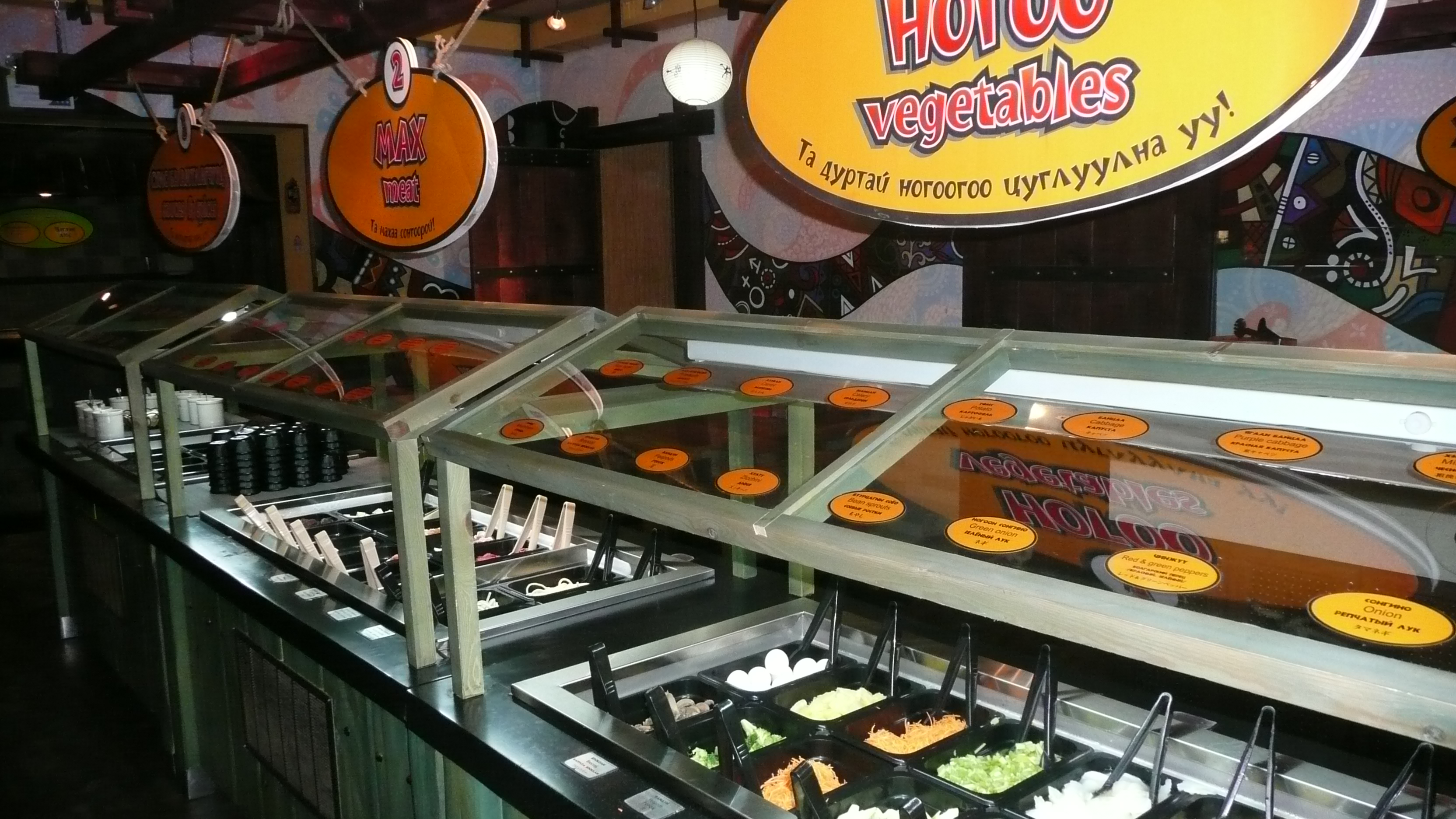 Buffet of BD's Mongolian Barbeque Restaurant in Ulan Bator